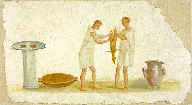 Fragmentary wall painting: two cooks gut a fawn in preparation for cooking